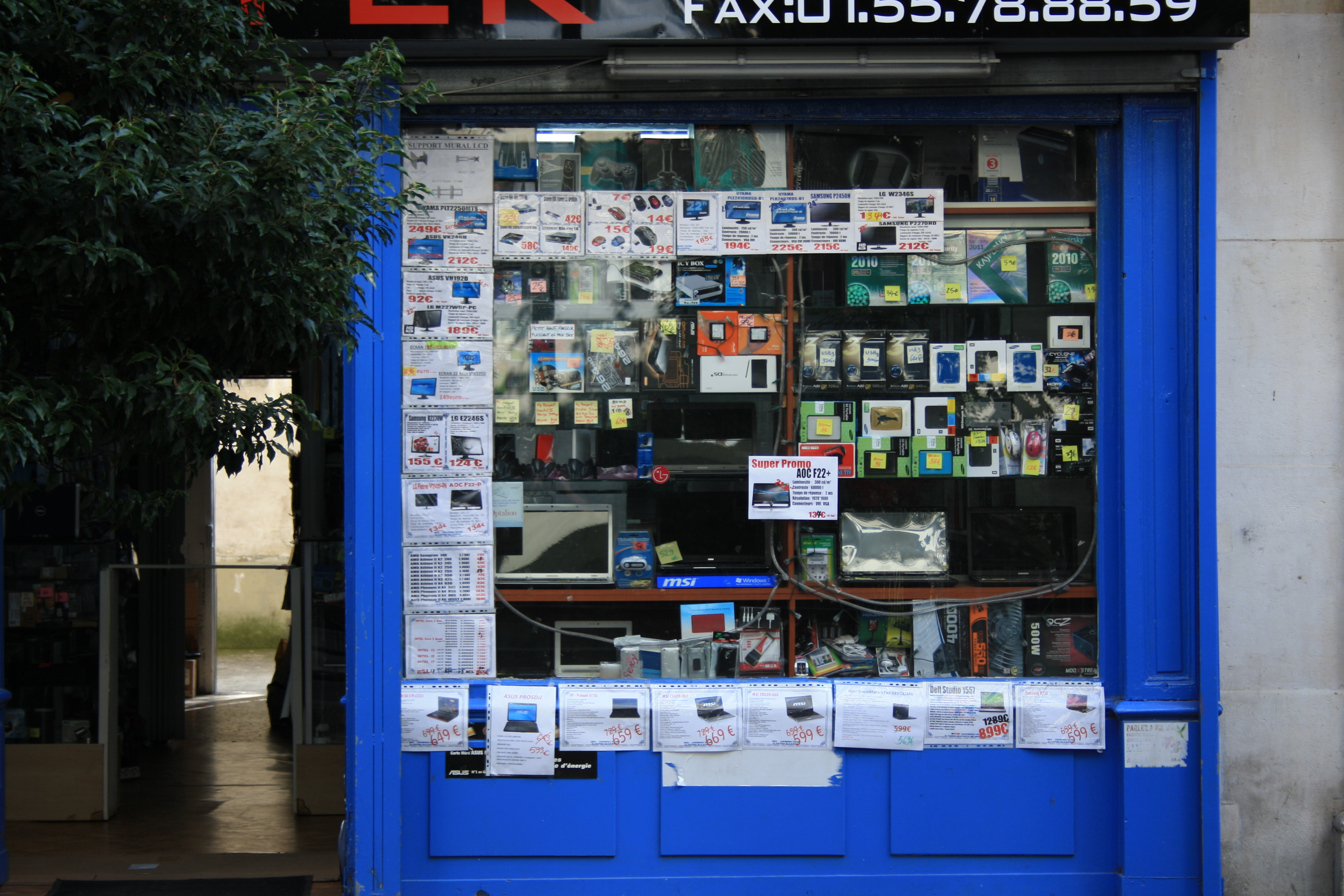 Typical computer shop in Montgallet street in Paris.